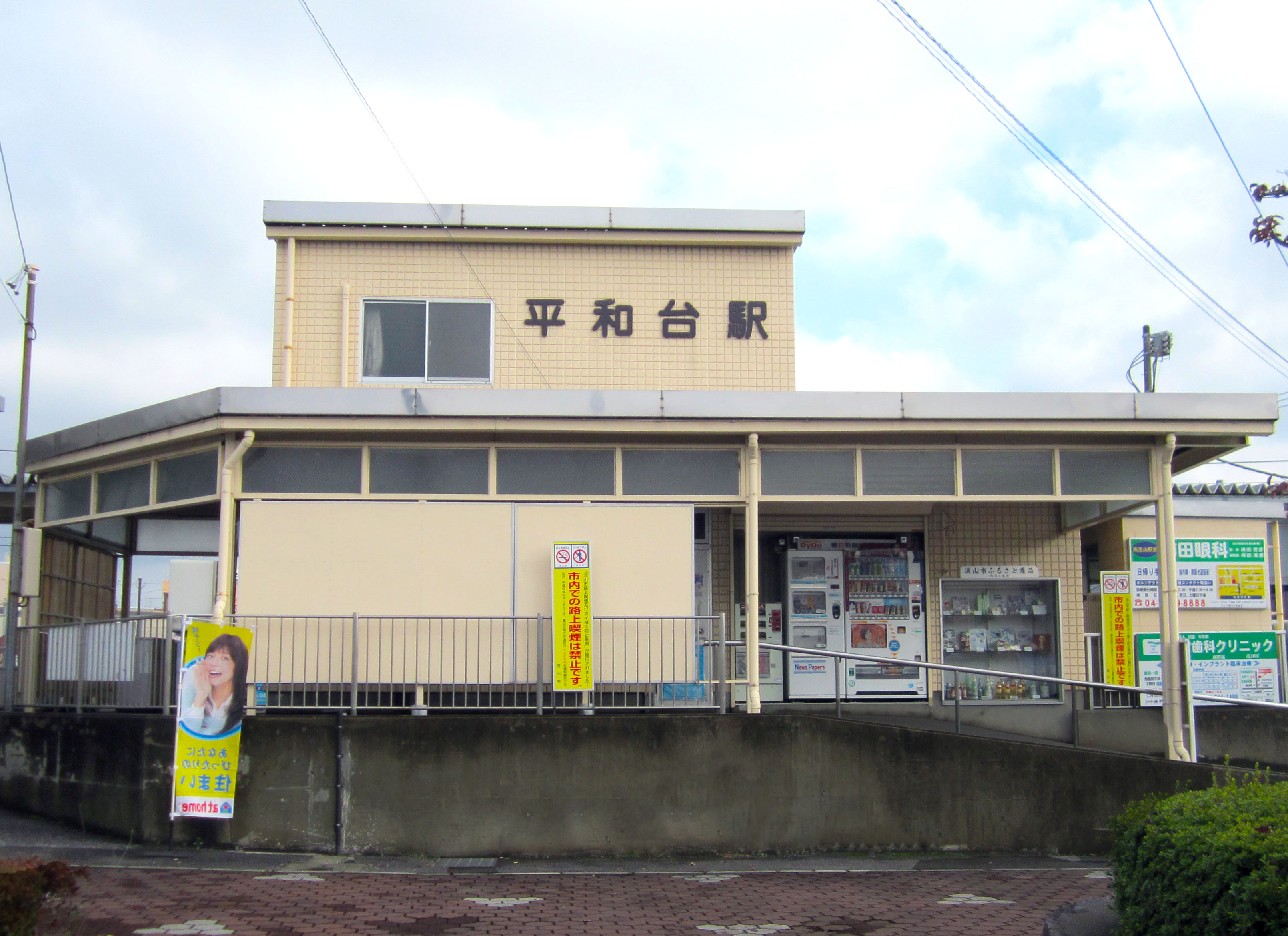 Ryuutetsu nagareyama line heiwadai station building